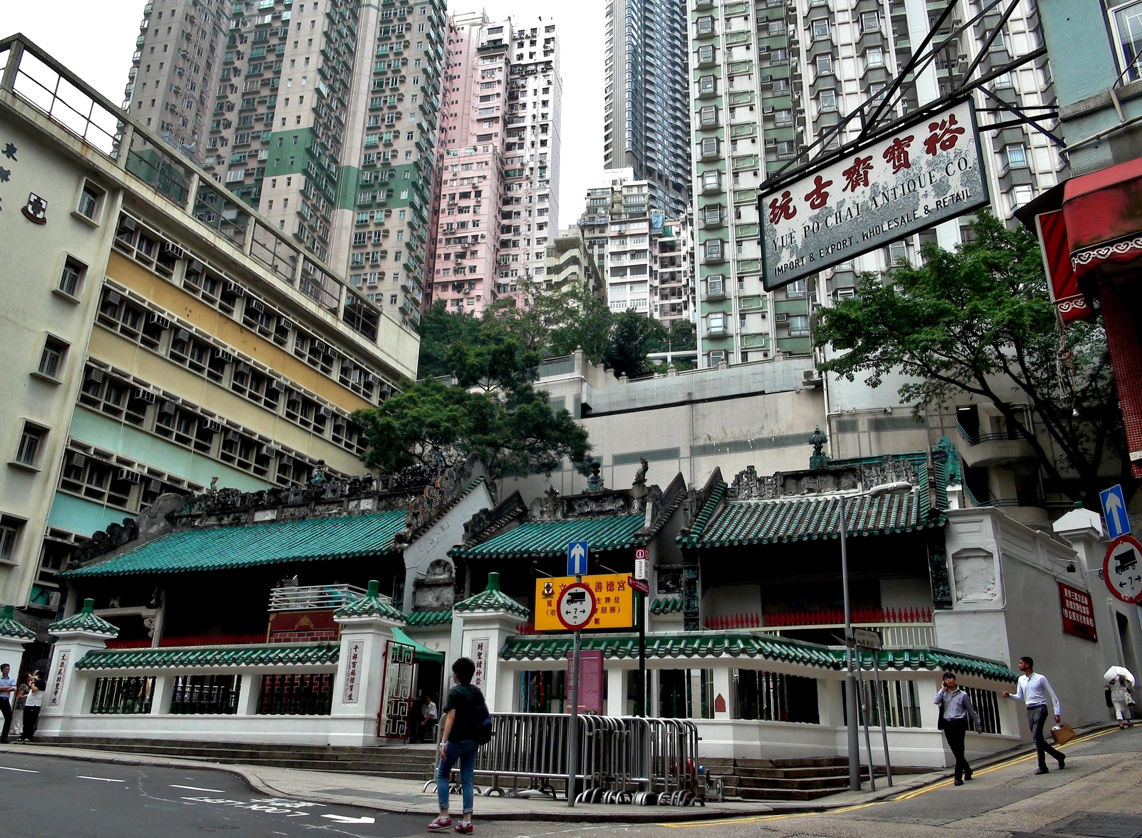 Man Mo Temple, Hollywood Road. Aug. 2015.